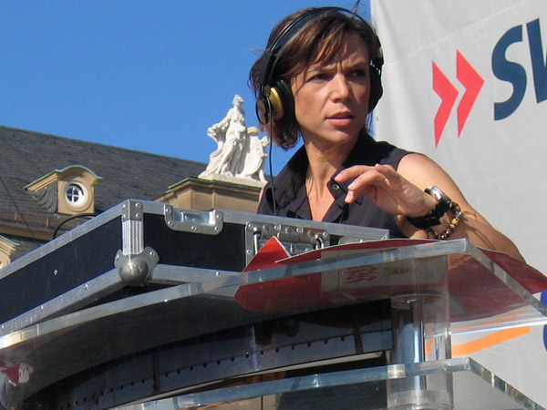 Stefanie Anhalt at the champions party of VfB Stuttgart 2007